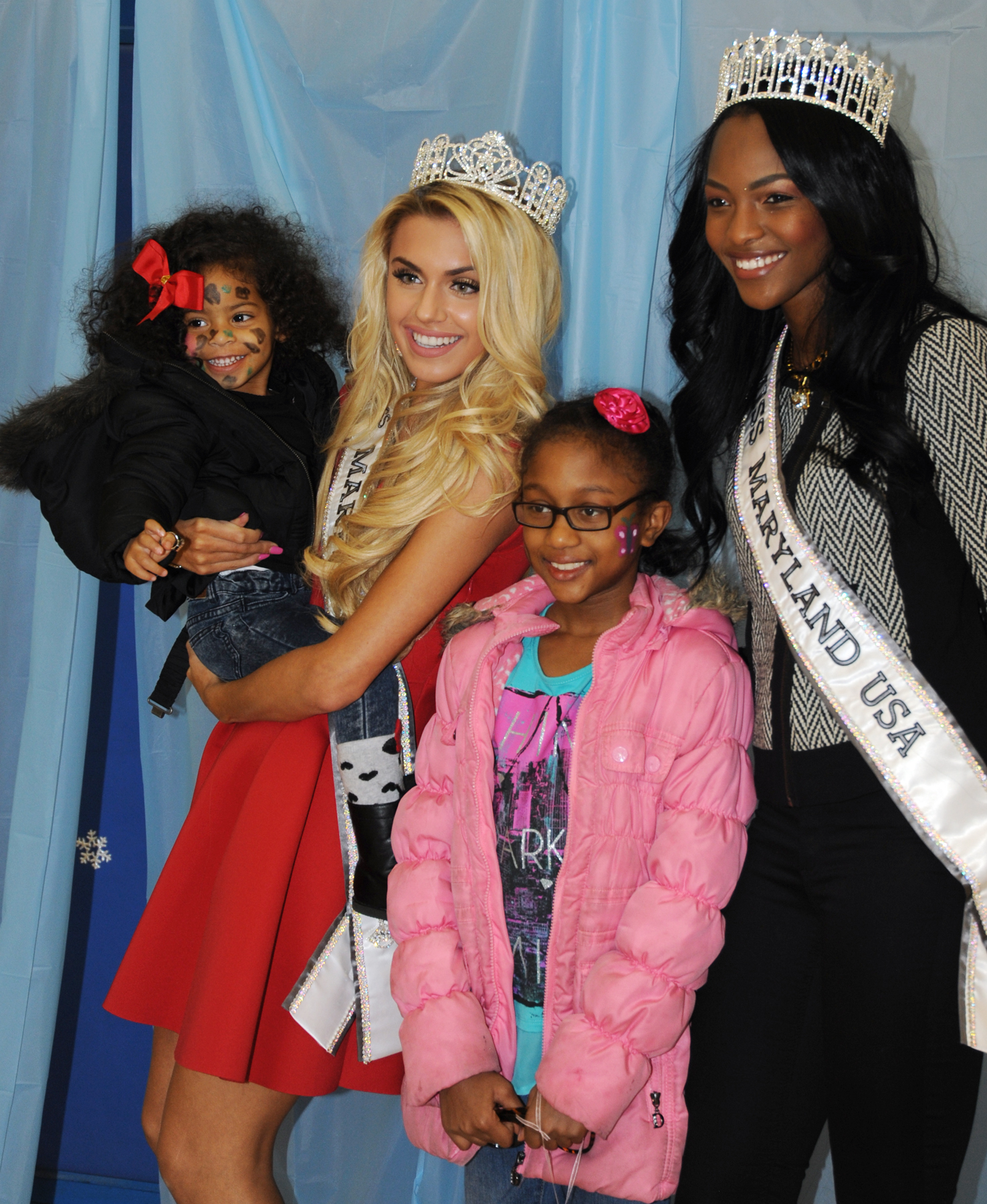 Miss Maryland Teen USA 2015, Taylor Dawson (left) of Germantown, is pictured with Pilar de Jesus, 2, along with Miss Maryland USA 2015, Mame Adjei of Silver Springs and Angel de Jesus, 10, of Odenton.